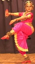 Bharatanatyam dancer Medha Hari